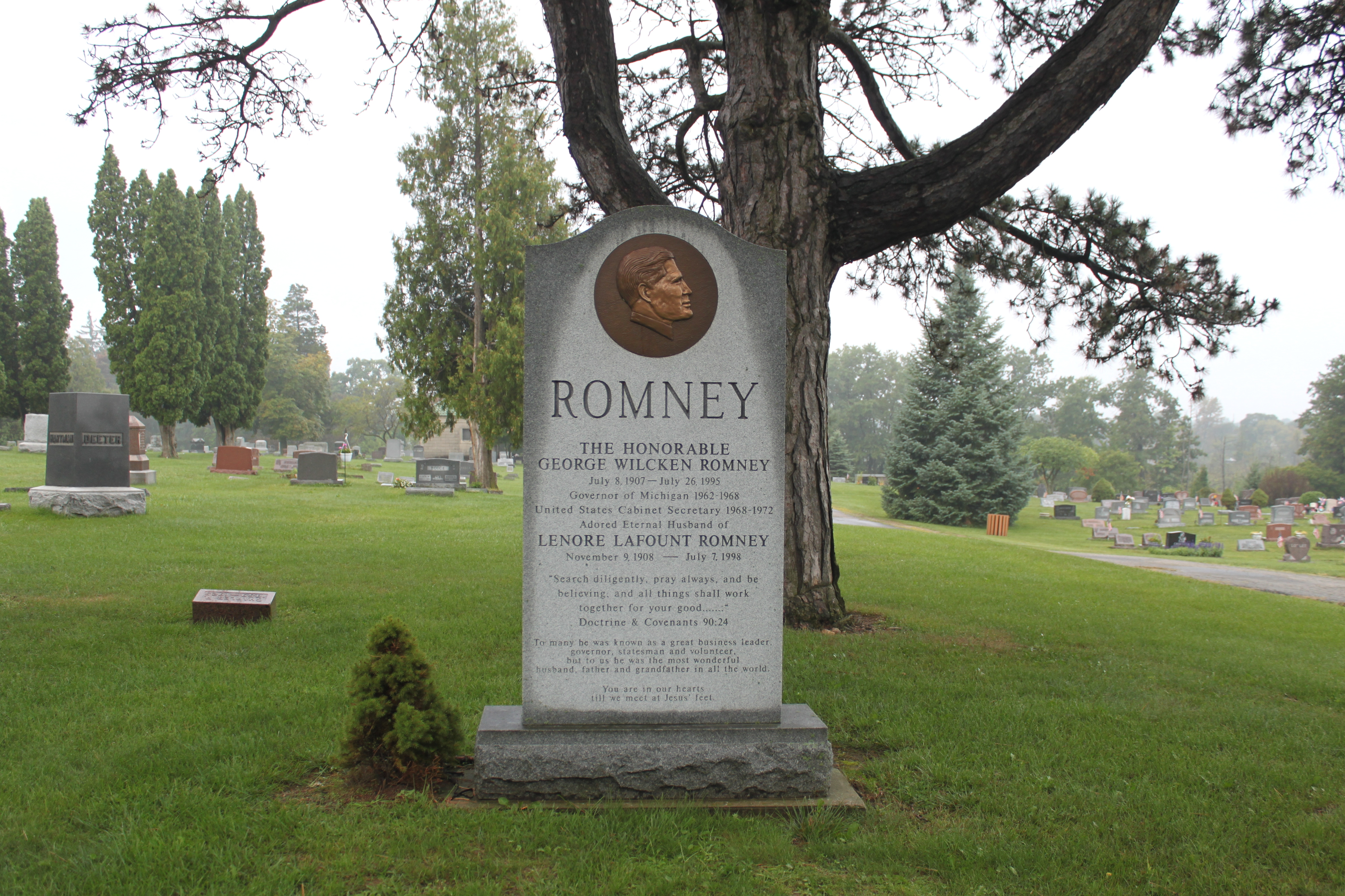 George and Lenore Romney Grave, Fairview Cemetery, Brighton, Michigan